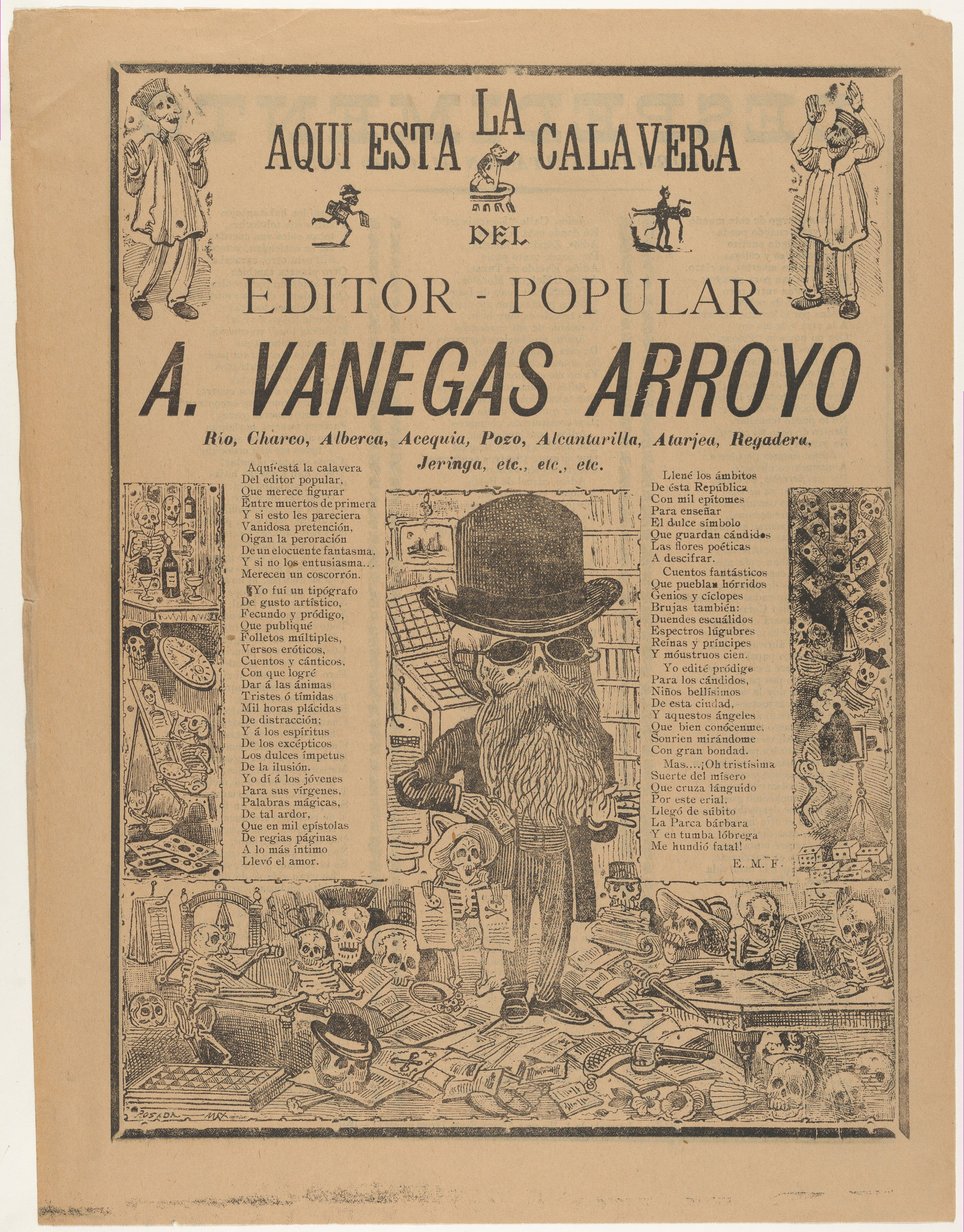 Print; Prints